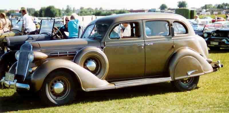 Chrysler Airstream Deluxe Series C-8 4-Door Touring Sedan 1936